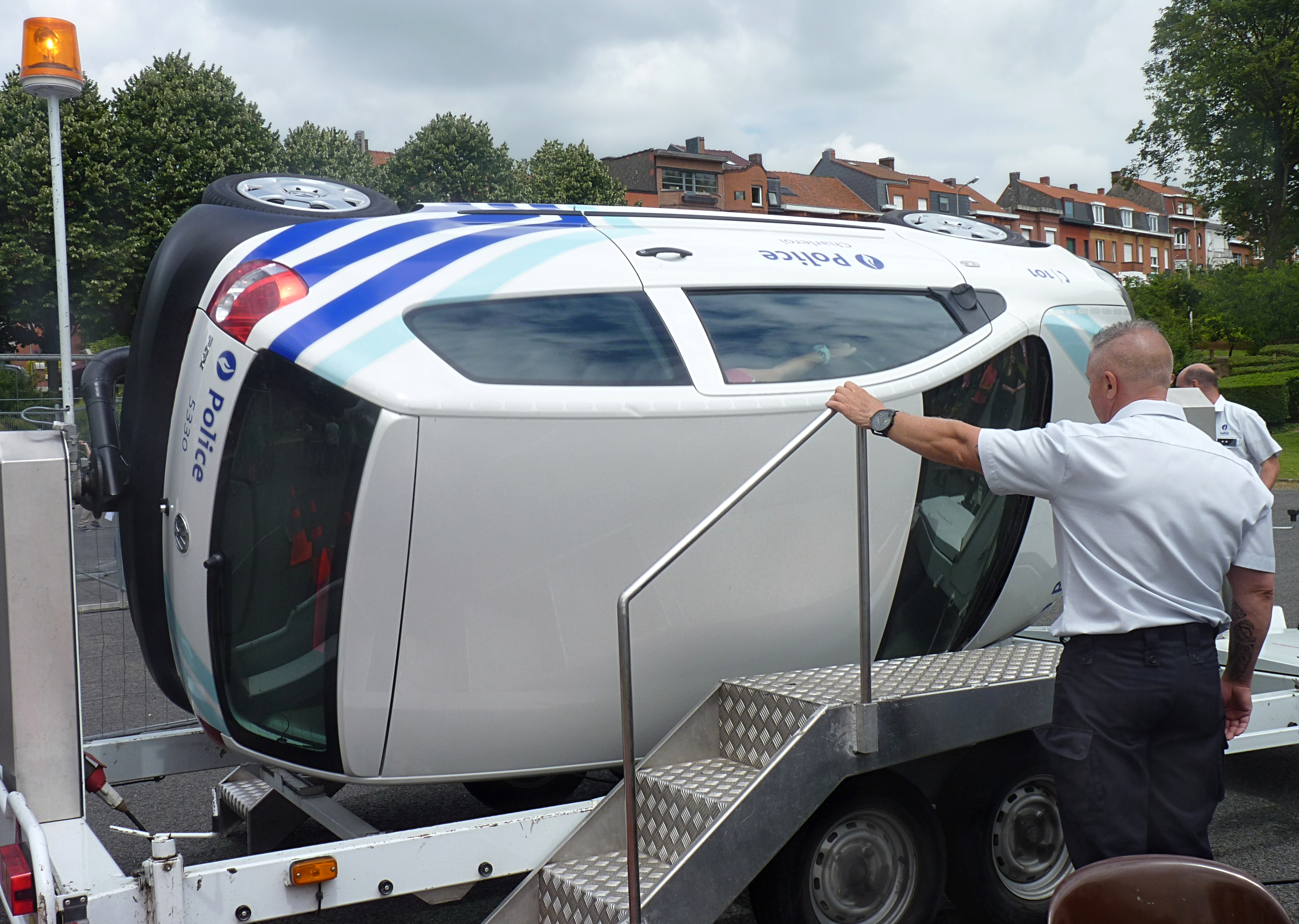 Rollover simulator in action under the control of two policemen, picture taken in Mouscron, Belgium.